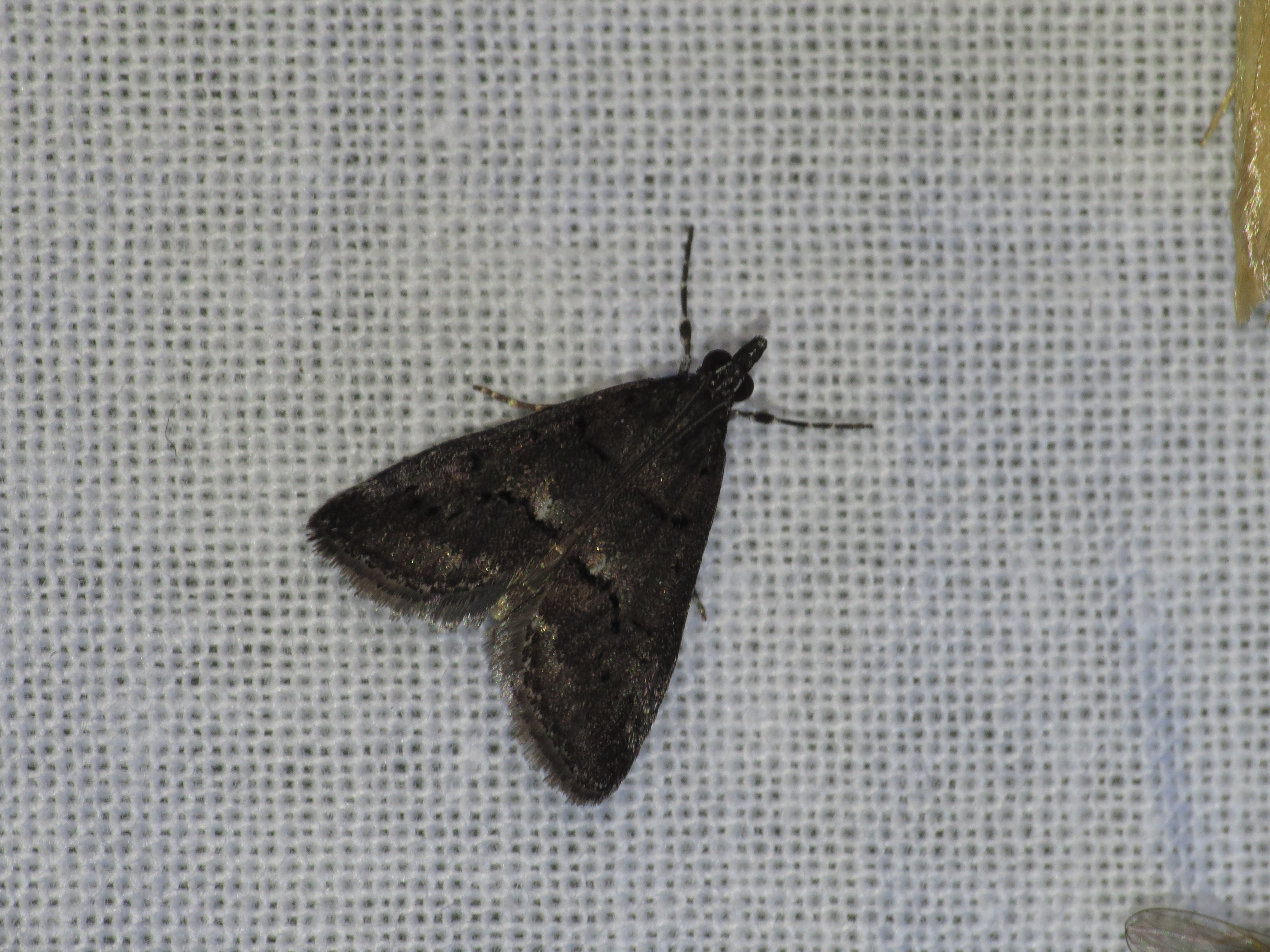 Eclipsiodes crypsixantha Meyrick, 1884, to actinic light, Blackheath, NSW, 8/9 November 2014